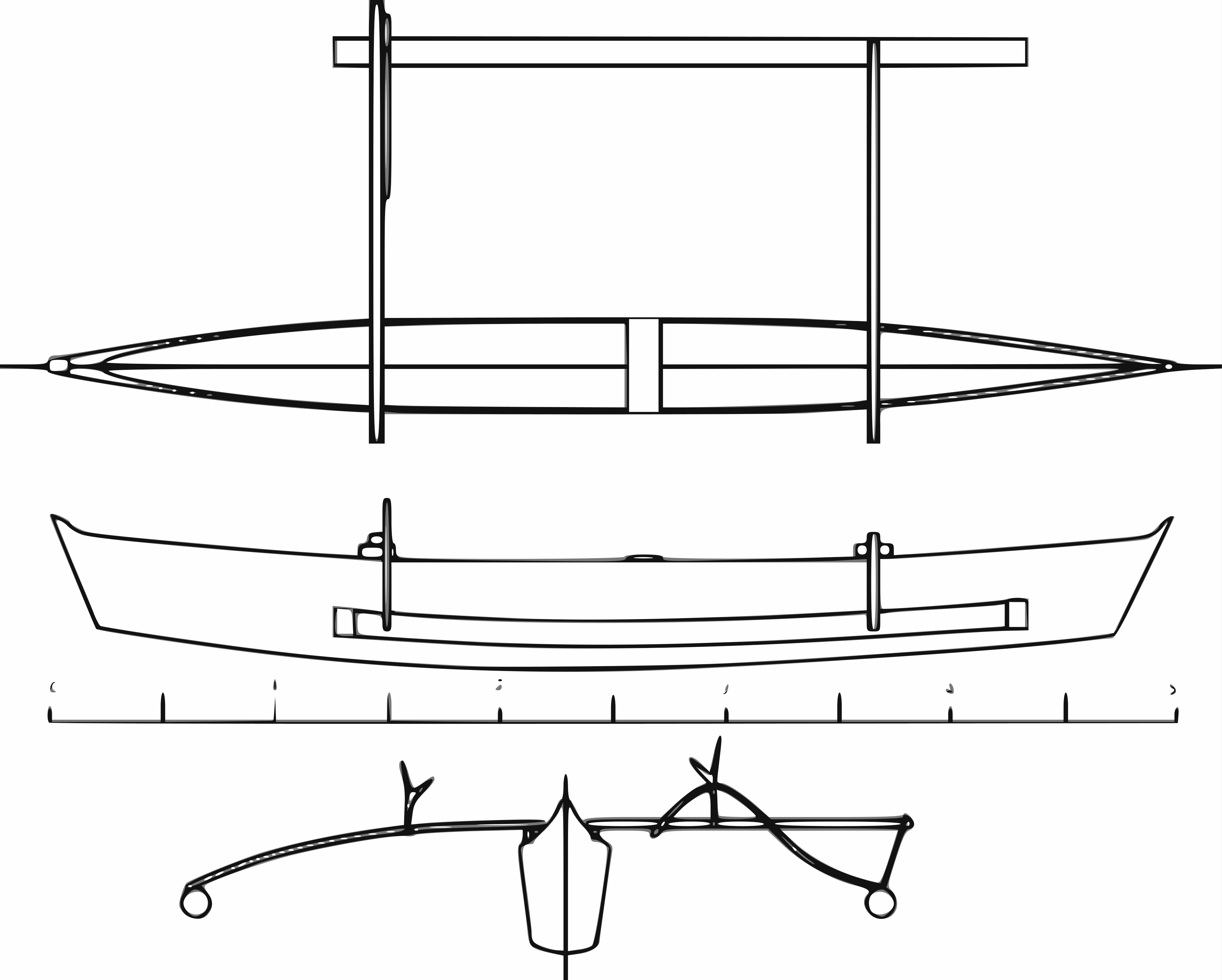 A small pelang (5 m in length) with marine plywood for its side planks. This vector image is a reproduction of an image by Aziz Salam.